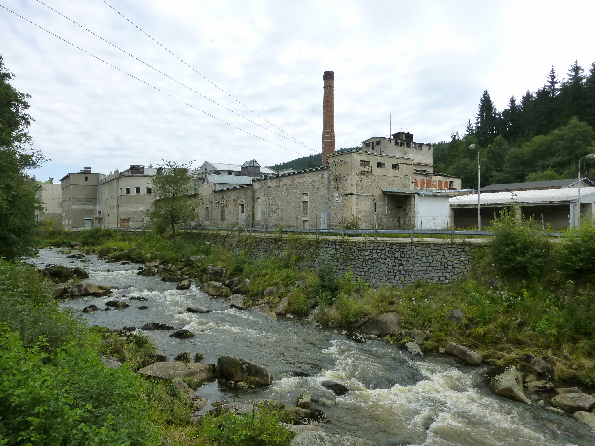 Former factory (paper mill?) on the Moldau at Loučovice, South Bohemian Region.